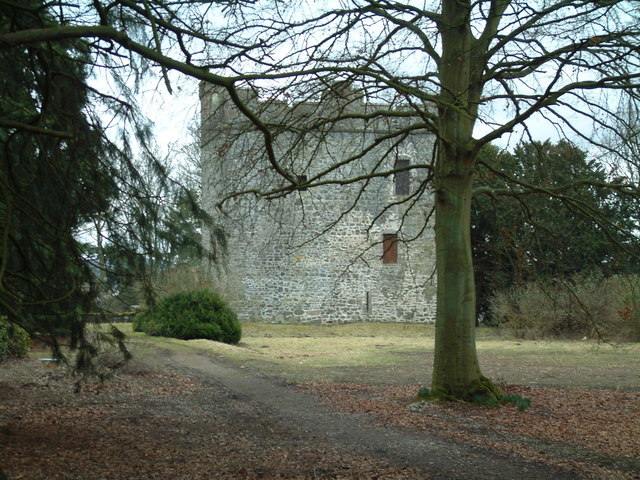 Balthayock Castle. A restored castle with new residential buildings being erected in its grounds